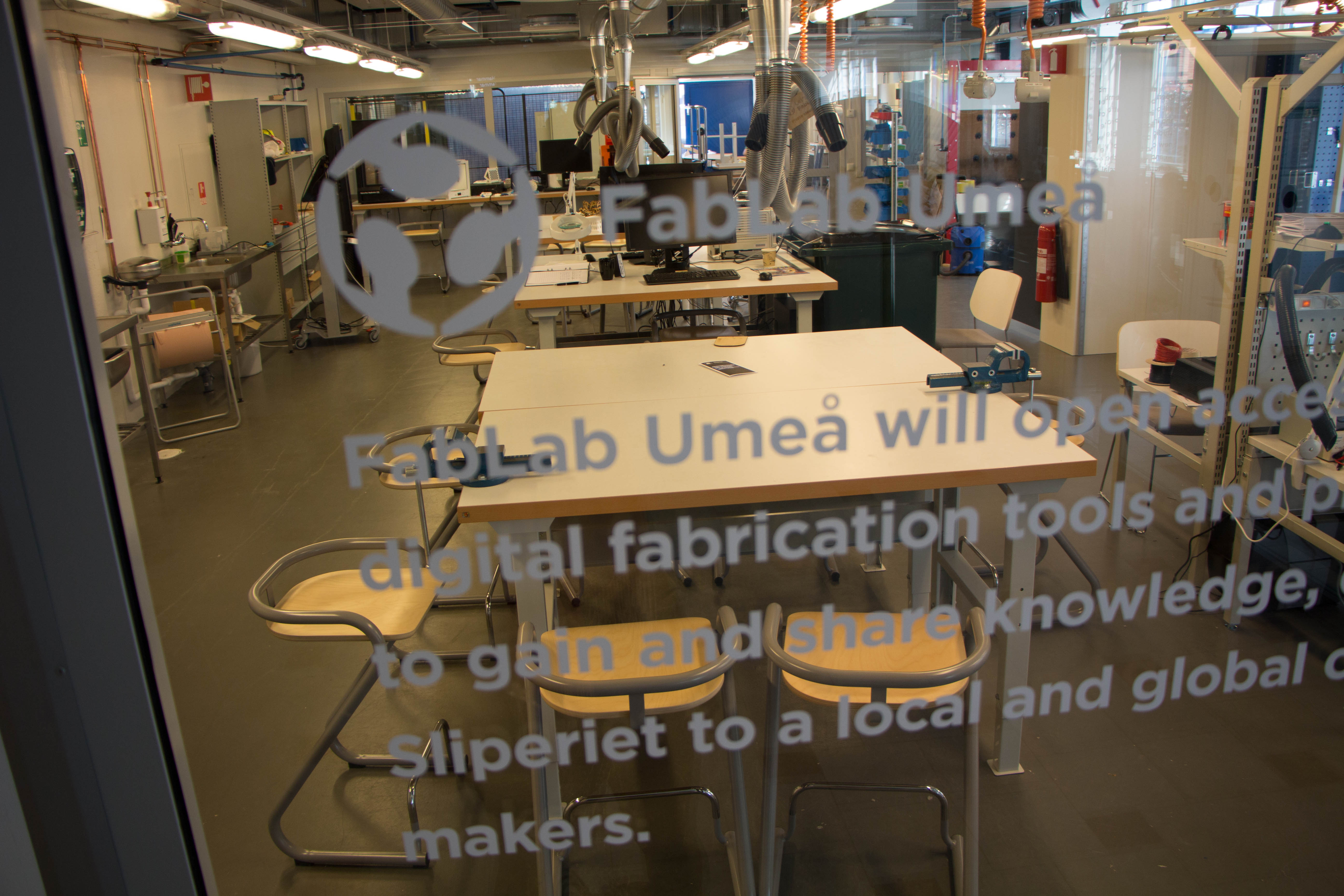 Fablab at Sliperiet, Umeå University. Photo by Ulrika Bergfors Kriström.